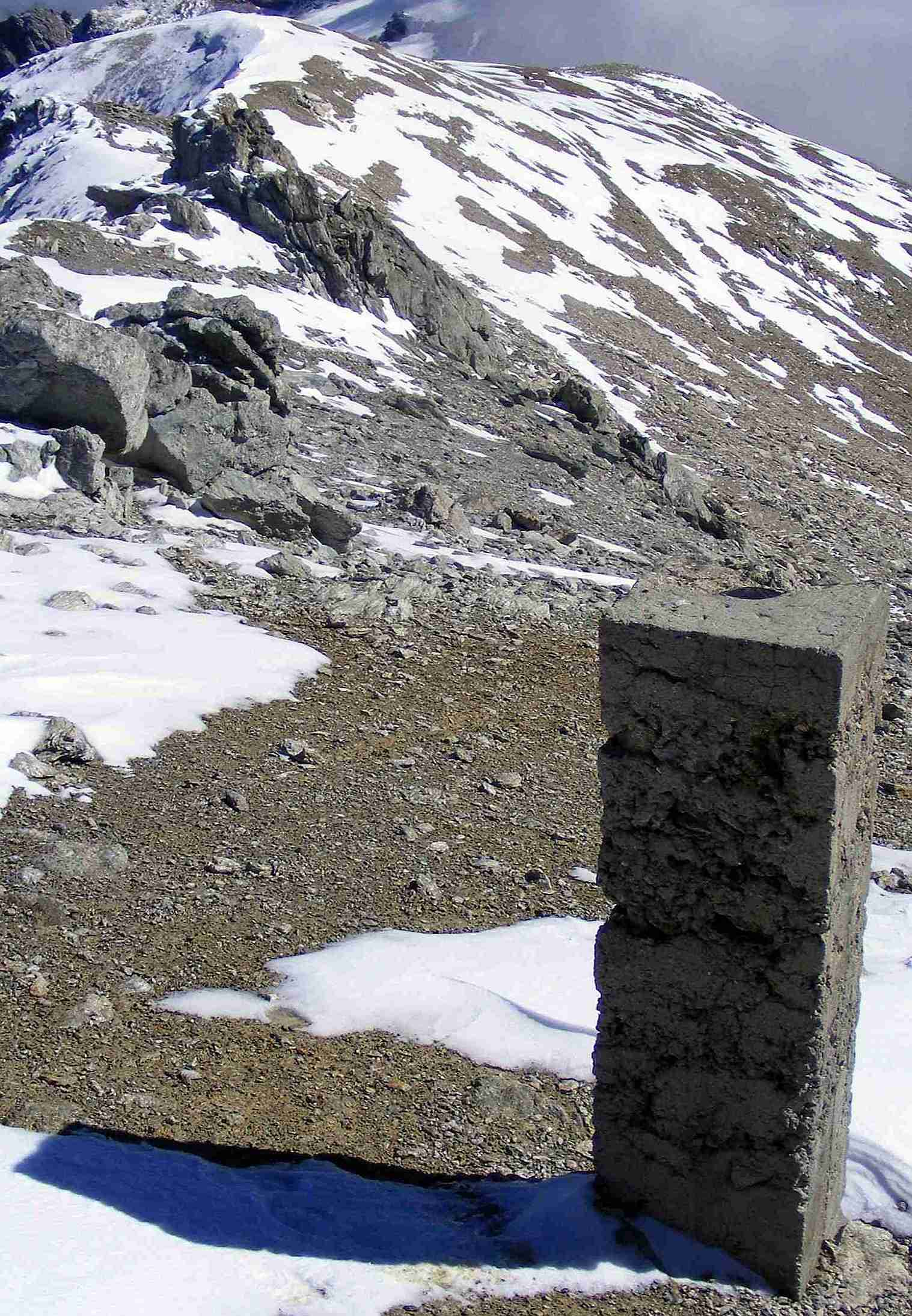 Geodetic control points Geodetic control point on the top of Punta del Sommeiller (Italian/French border, Cottian Alps)